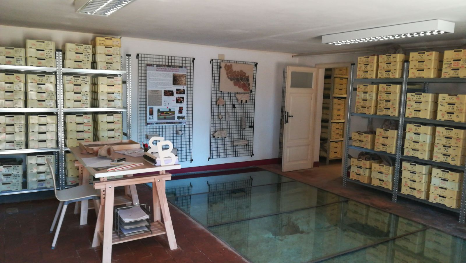 Archeological Park San Vincezino warehouse